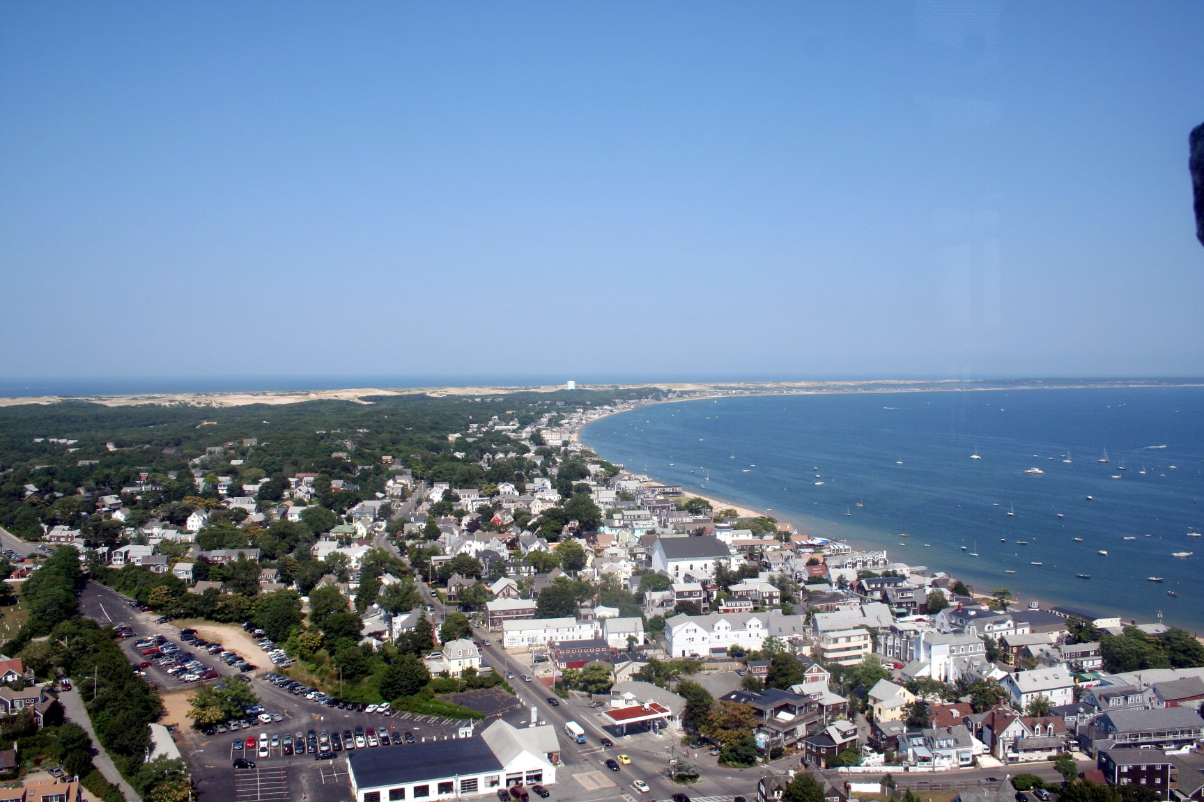 Photograph of Provincetown, Massachusetts, United States of America seen from the Pilgrim Monument